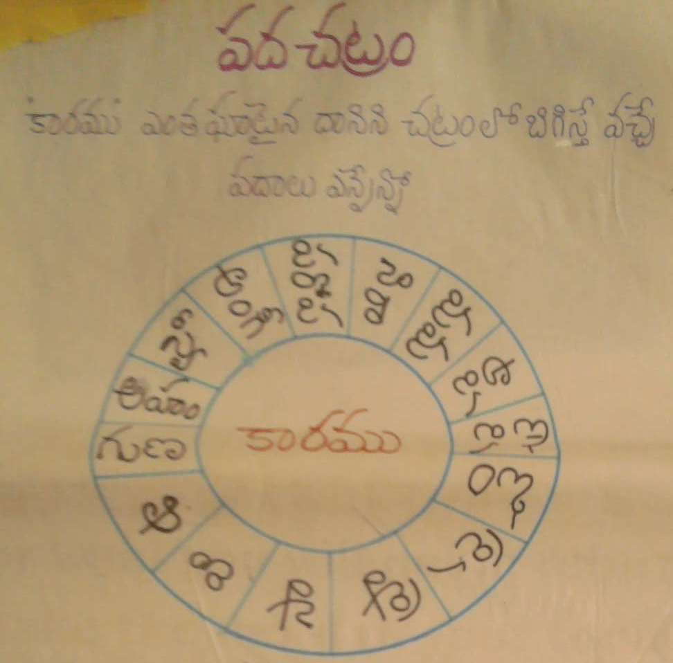 Word Wheel